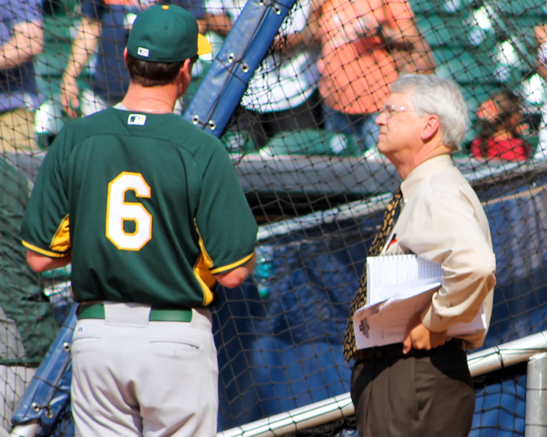 Houston Astros broadcaster Bill Brown talks with Oakland Athletics manager Bob Melvin before a game in April 2014.